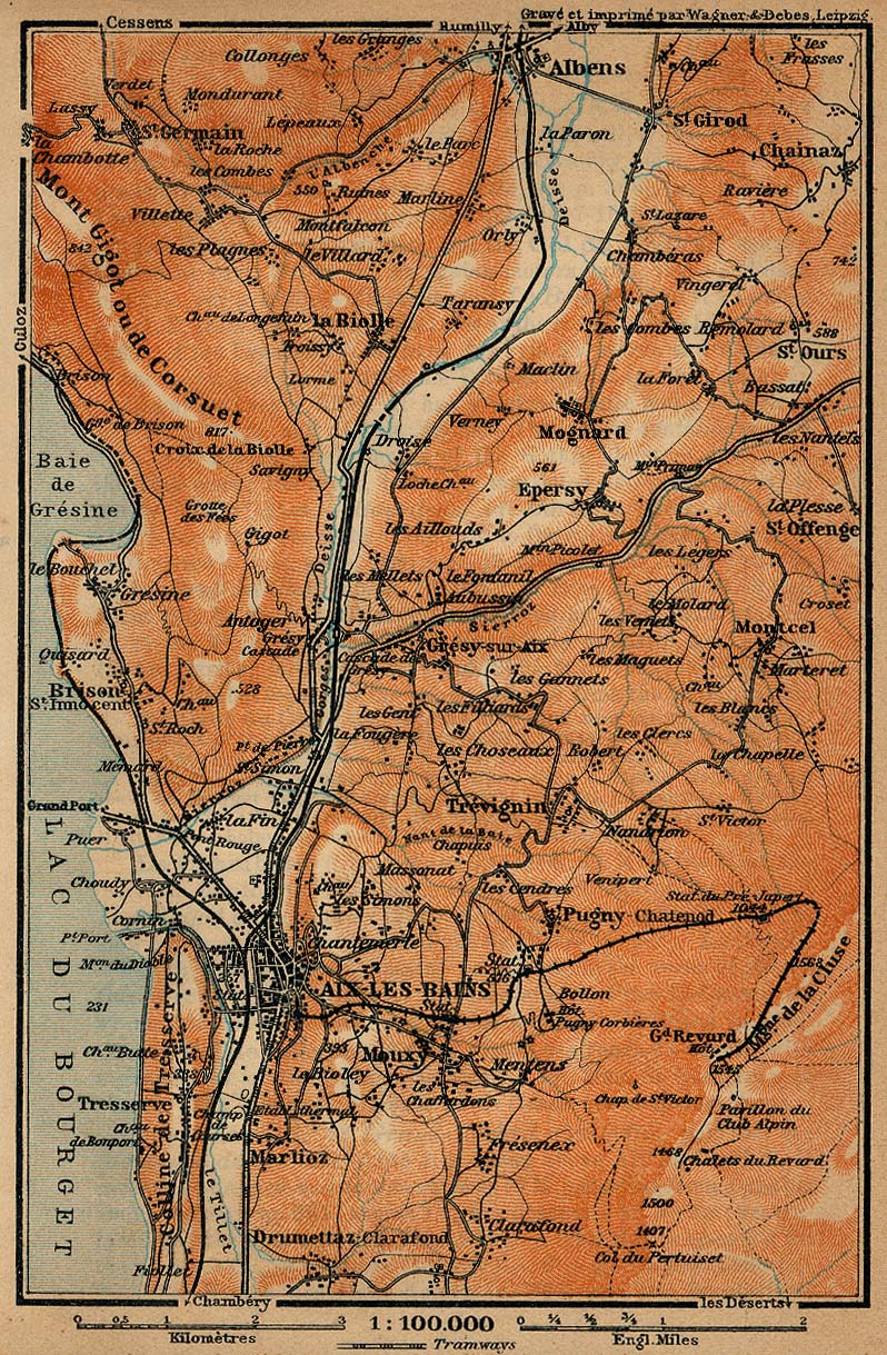 Map of France. Aix Les Bains - environs.